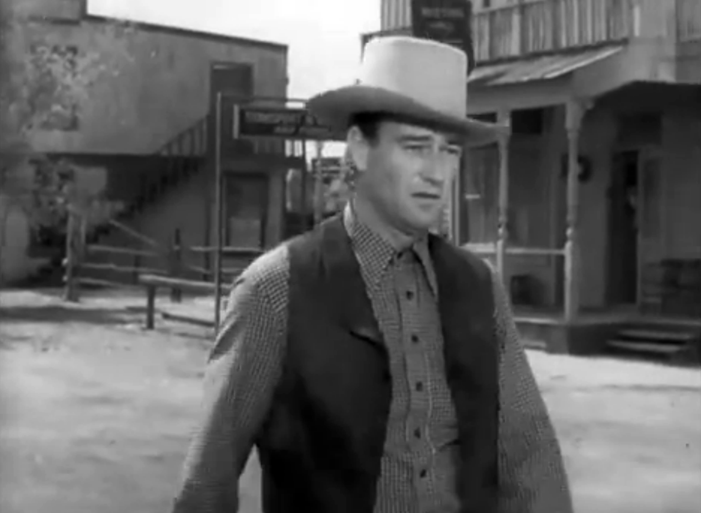 John Wayne in Tall in the Saddle Trailer